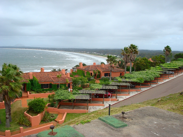 Playa de Portezuelo seen from an observatory point along Ruta 10, near Punta Ballena. Maldonado Department, Uruguay.